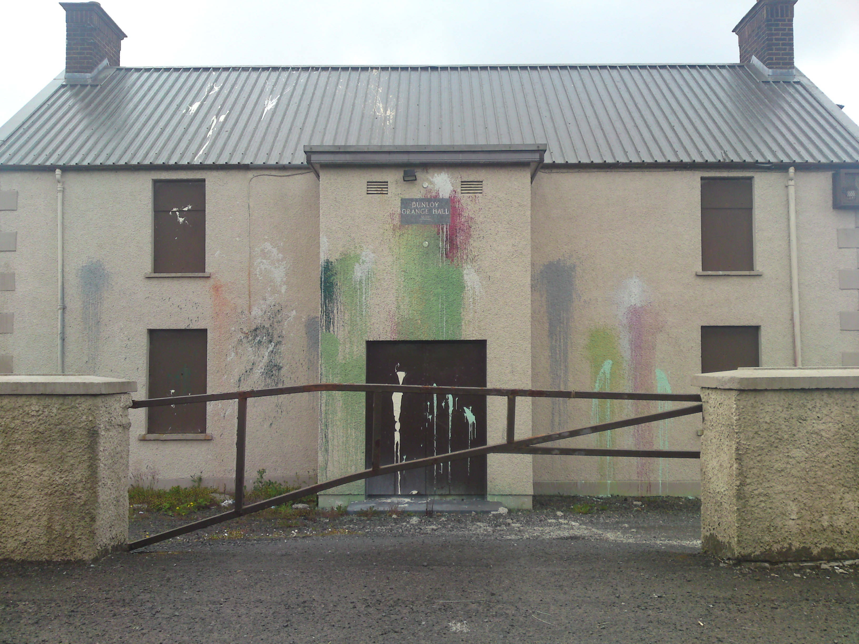 Dunloy Orange Hall.Siyuated on the Station Road just outside the village.It has been repeatedly attacked and covered in paint.The plaque above the door reads "Dunloy Orange Hall 1896"